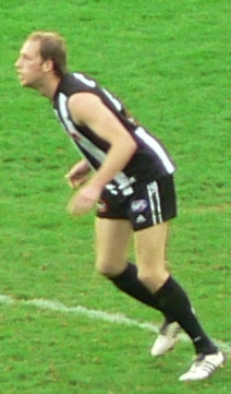 Josh Fraser playing for Collingwood during the 2006 AFL Season